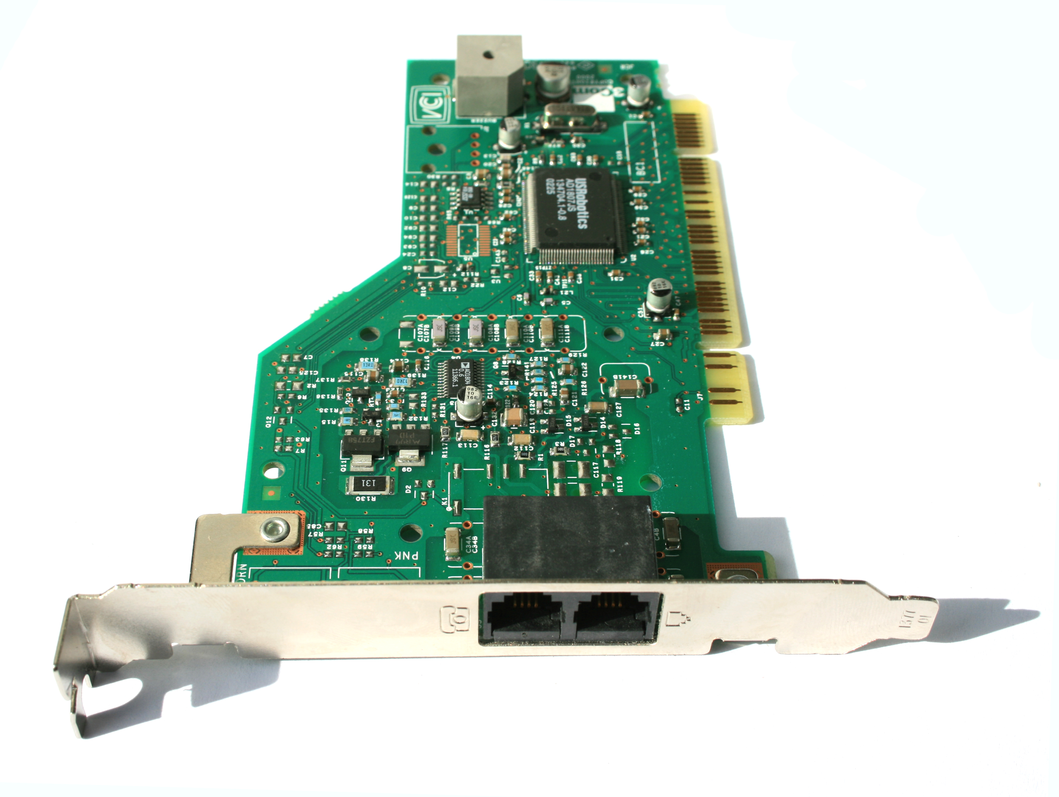 A Photo of a PCI V.92 Fax Modem Card. It has a 3COM/US Robotics AD1807JS chipset.